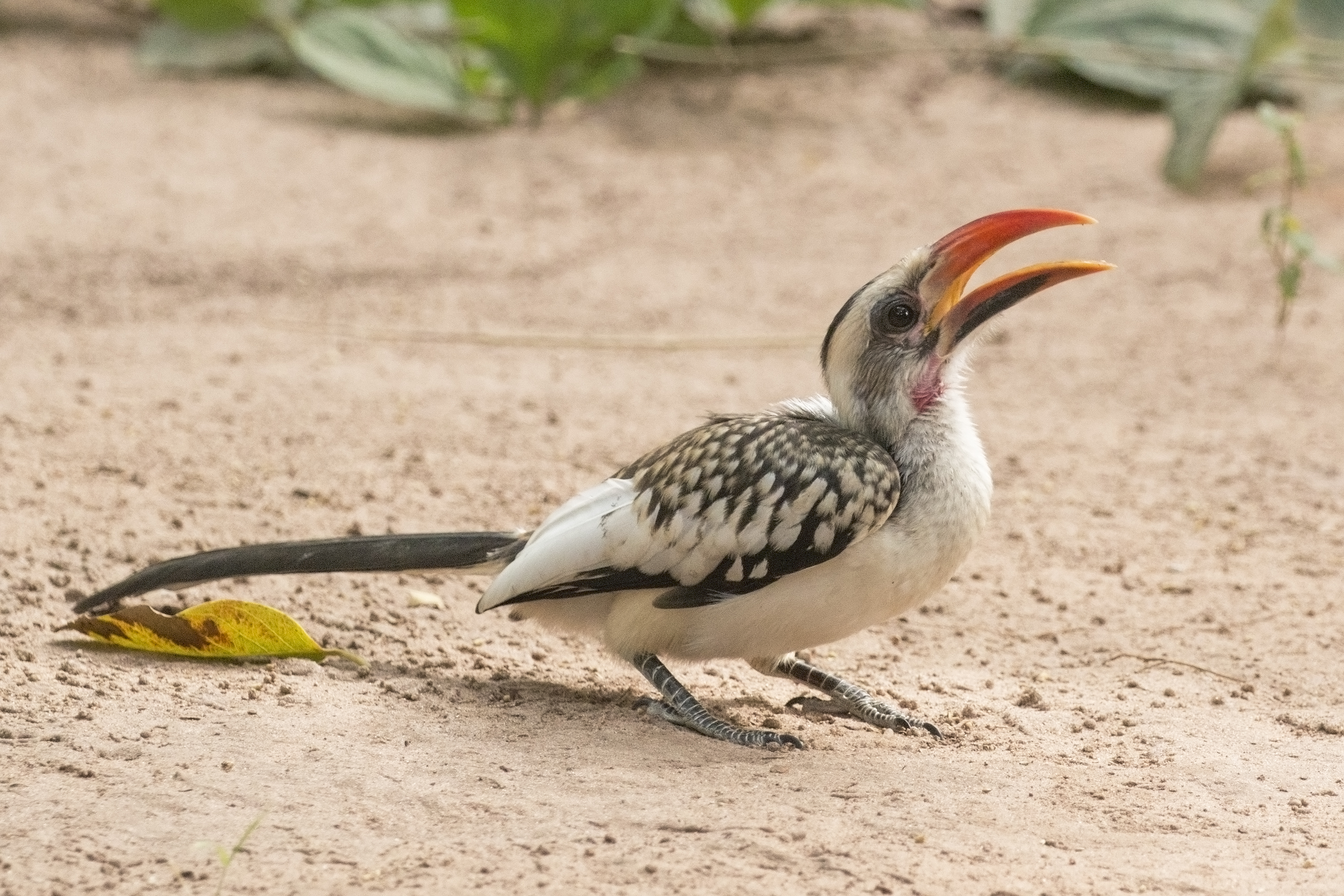 Western red-billed hornbill (Tockus kempi), male, The Gambia